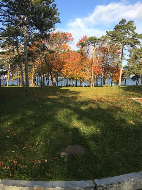 SUNY Oswego Fall 2016